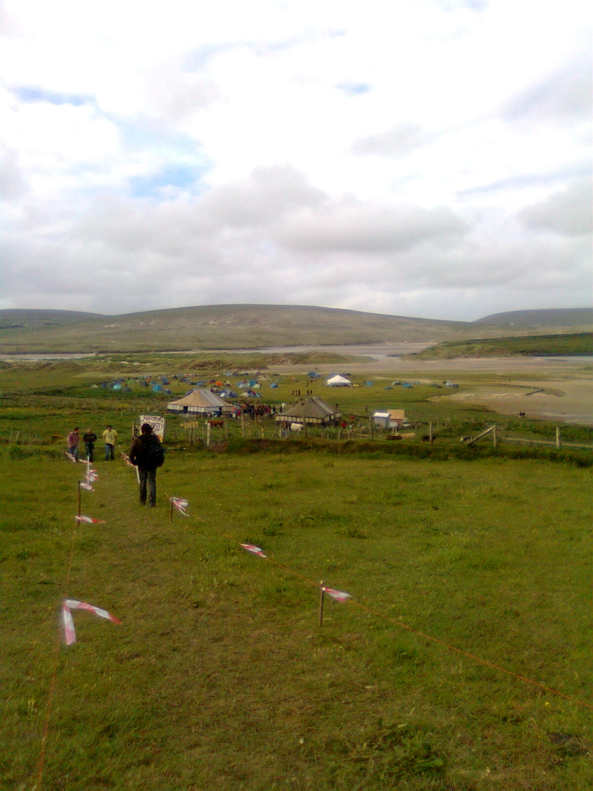 Corrib Gas Protest camp at Glengad, County Mayo, Summer 2010